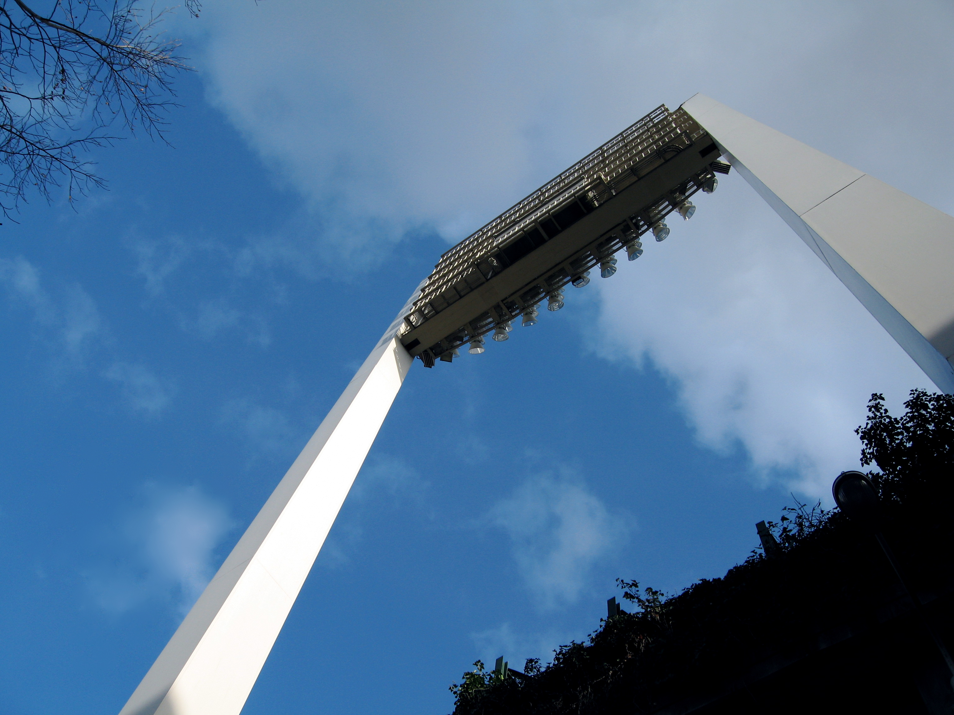 Lighting Tower of Hiroshima Municipal Baseball Stadium 1st ／広島市民球場（初代） 照明灯